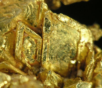 Gold Locality: Round Mountain Mine, Round Mountain District, Nye County, Nevada, USA (Locality at ) Size: 2.0 x 1.8 x 0.7 cm. This modern-day Gold locality has produced a plethora of amazing Gold specimens featuring a wide range of crystal habits, including some of the most impressive Spinel-Law twinned Gold crystals I have seen. This thumbnail was discovered in 2006 and is a very good representative Gold from the locality. The two main characteristics of the specimen are the wide flattened "sheet"-like part of the piece which comprises the majority of the specimen. Along the edge of the "sheet" are some beautiful, sharp, cuboctahedral and elongated octahedral crystals.